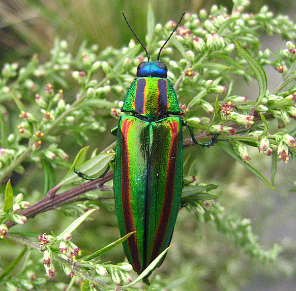 A picture of Chrysochroa fulgidissima, or "Tamamushi" beetle. Photo taken in Iizaka, Japan with a Canon PowerShot SD450 Digital Elph camera. Image file extension was changed using a Paint Shop program on a laptop computer.